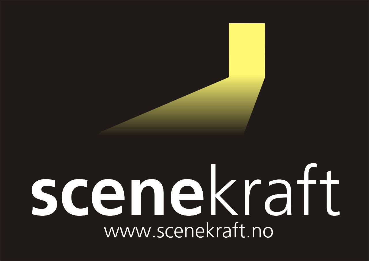 Logo Scenekraft